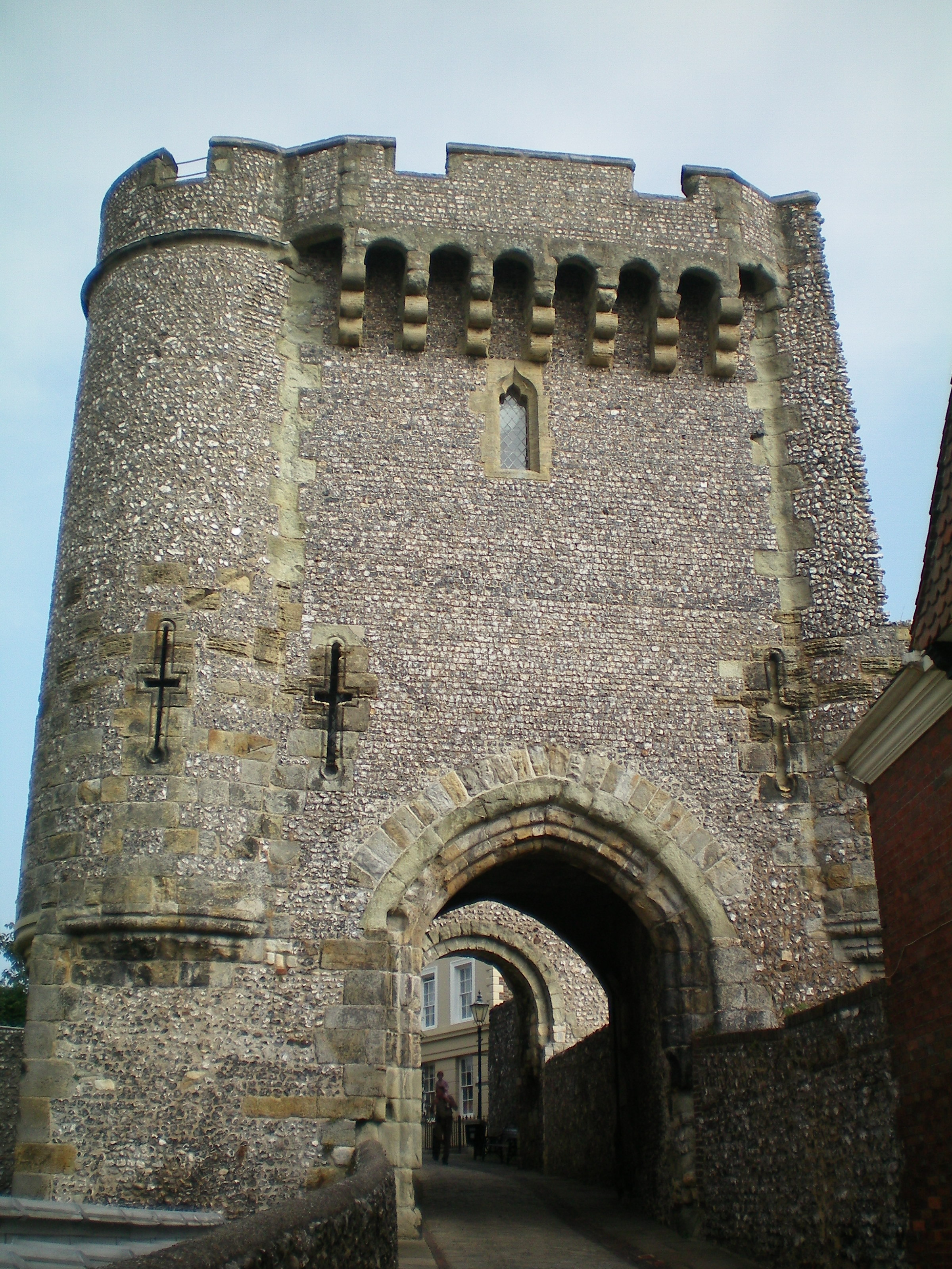 The barbican at Lewes Castle, East Sussex, England.